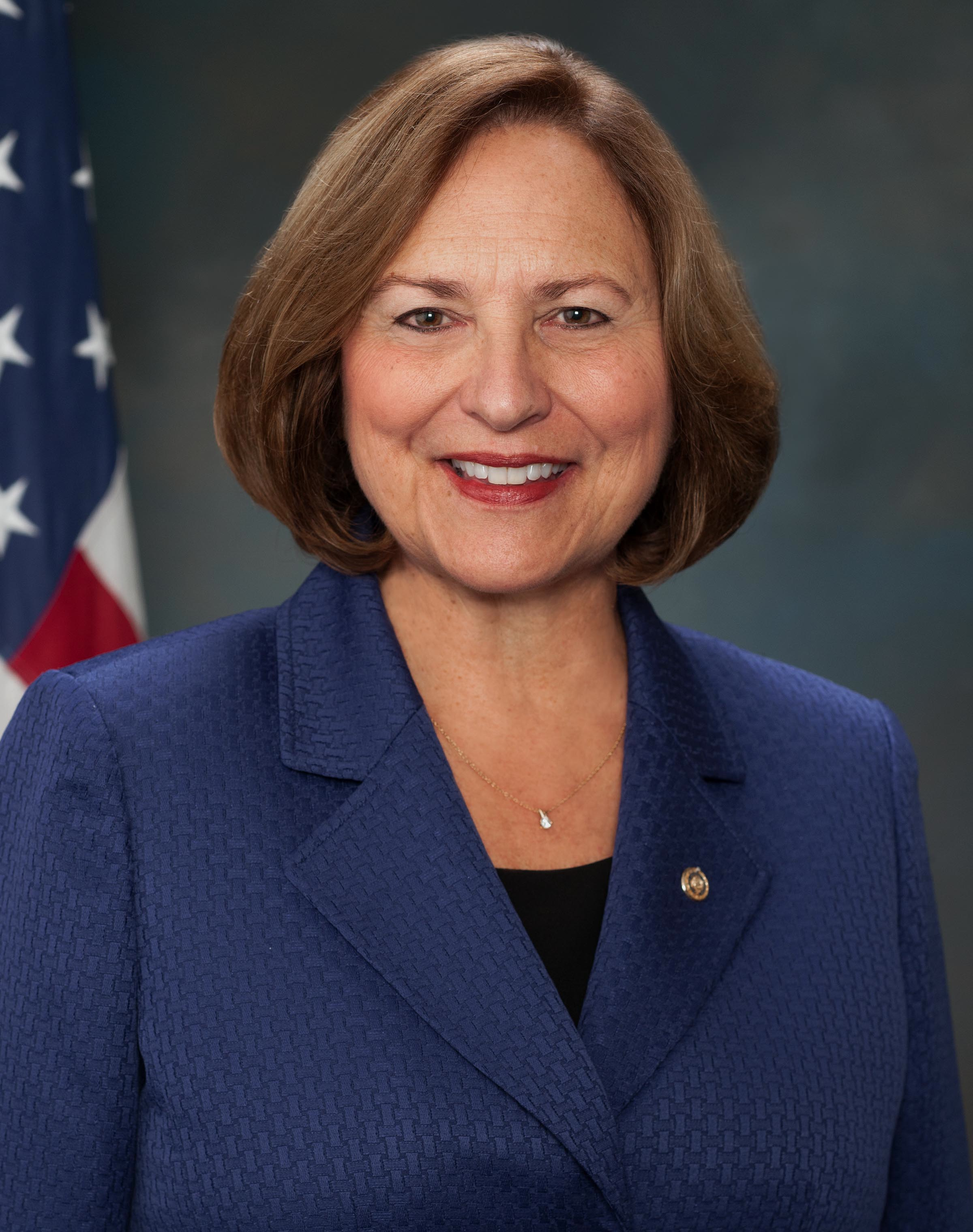 Deb Fischer official Senate photo